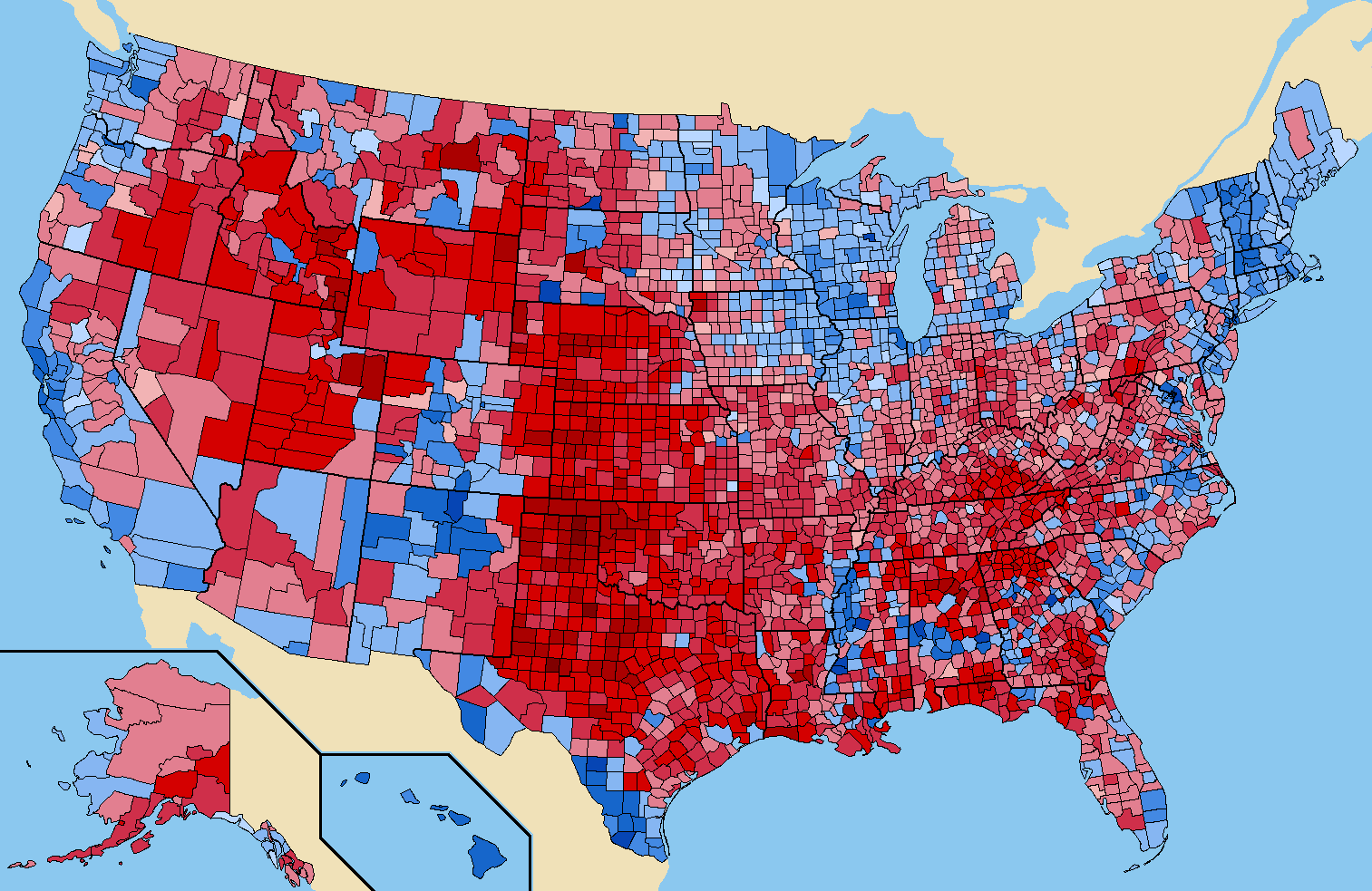 Popular vote by county. Red represents counties that went for McCain, Blue represents counties that went for Obama. Connecticut, Hawaii, Massachusetts, New Hampshire, Rhode Island, and Vermont had all counties go to Obama. Oklahoma had all counties go to McCain.